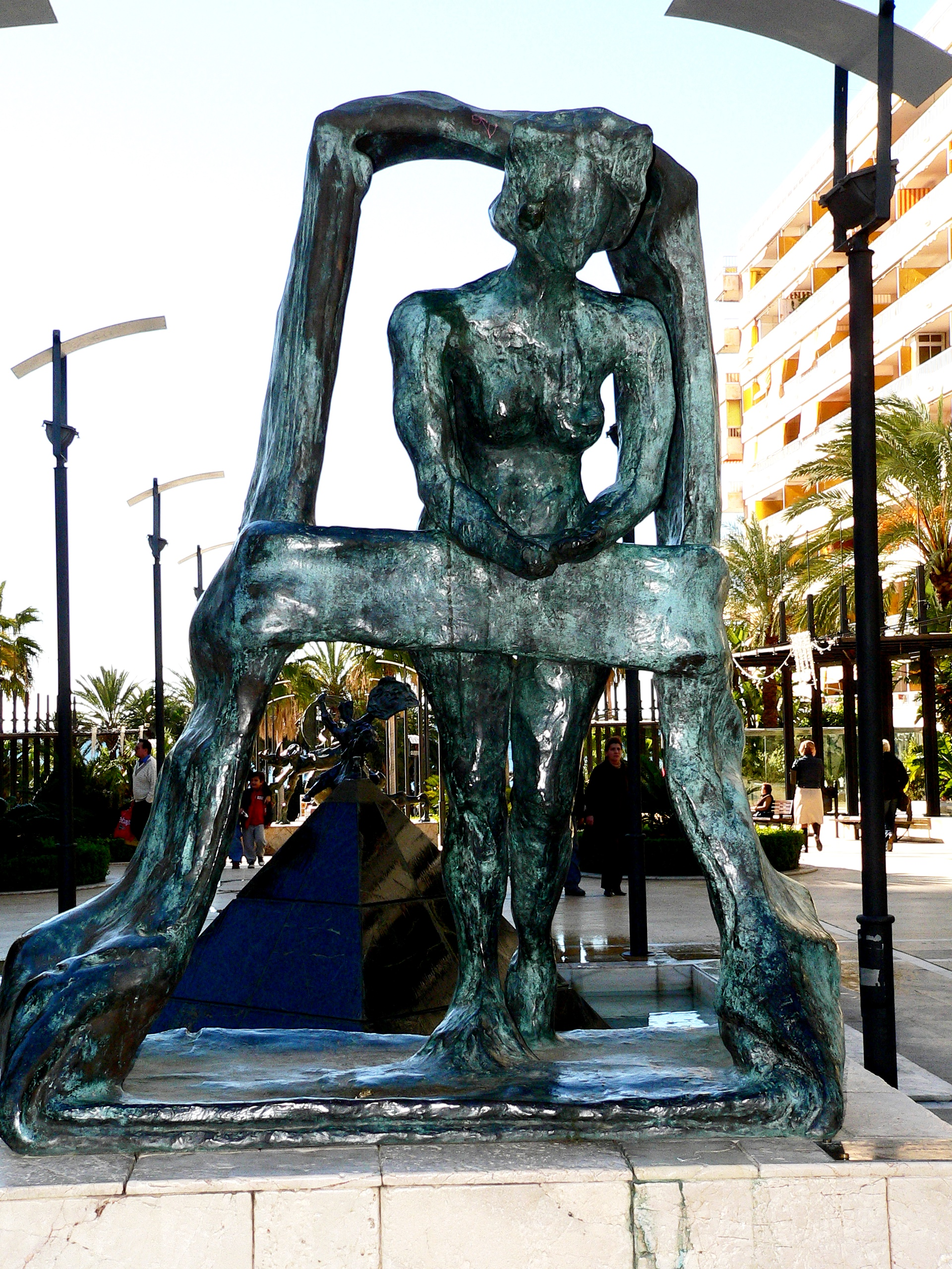 Description: Gala asomada a la ventana Subject: Sculpture Artist : Salvador Dalí City : Marbella Country : Spain Photographer: © Manuel González Olaechea y Franco Shot date : January, 3rd, 2006